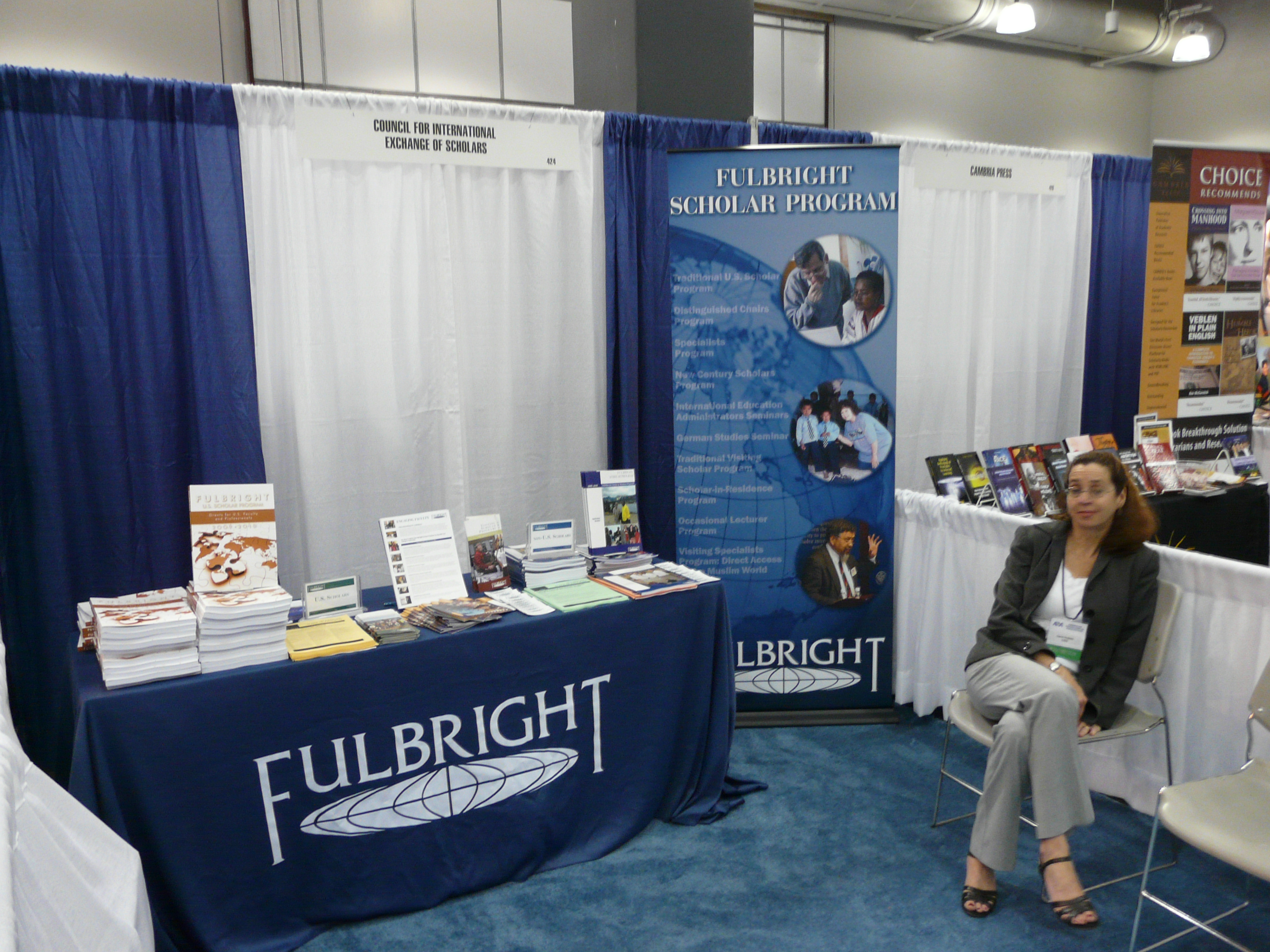 Boston. American Sociological Association conference.